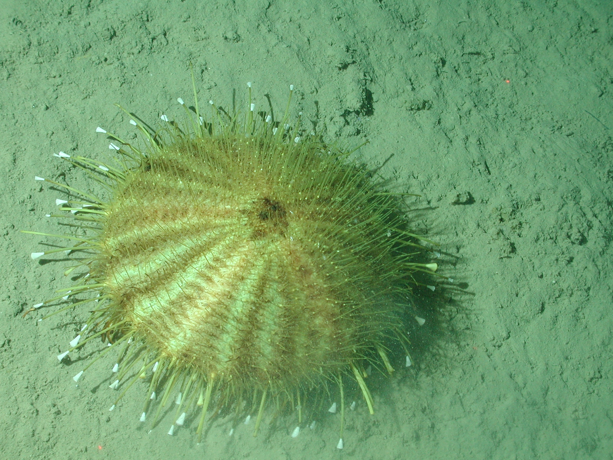 Gold sea urchin (Tromikosoma sp.) at 2932 meters water depth. California, Davidson Seamount. 2002 May 19.